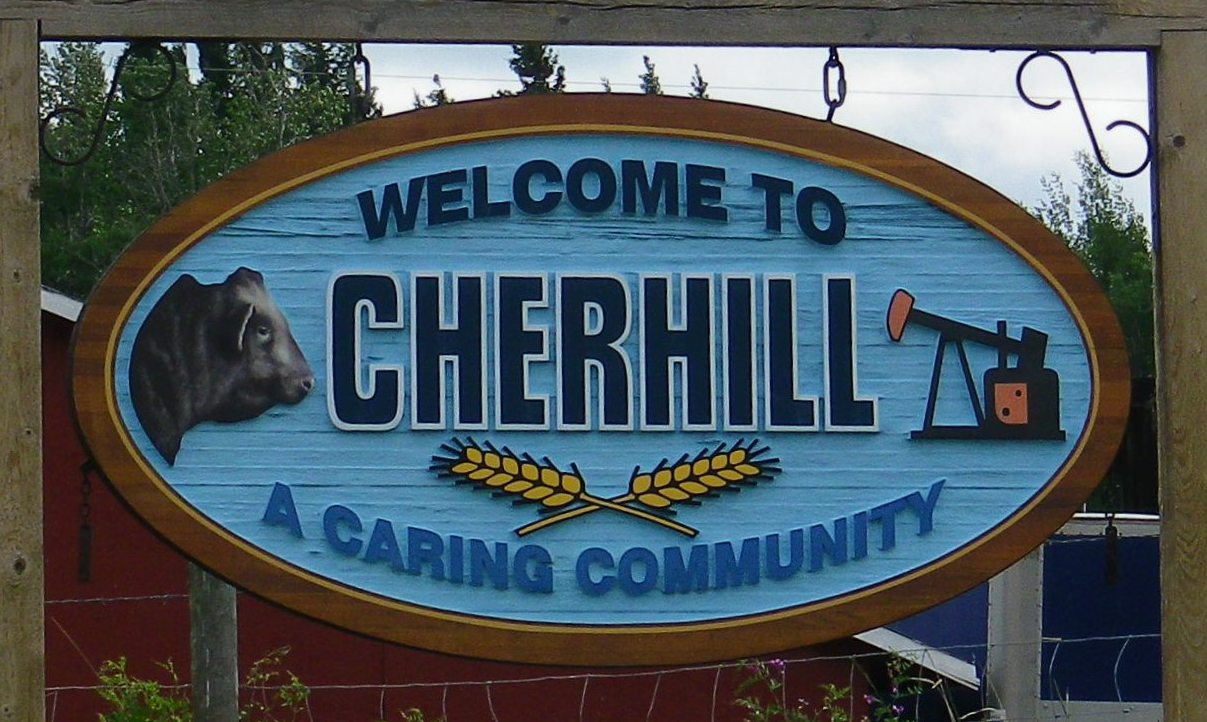 Entrance sign at one of the entrances to Cherhill, Alberta, Canada.